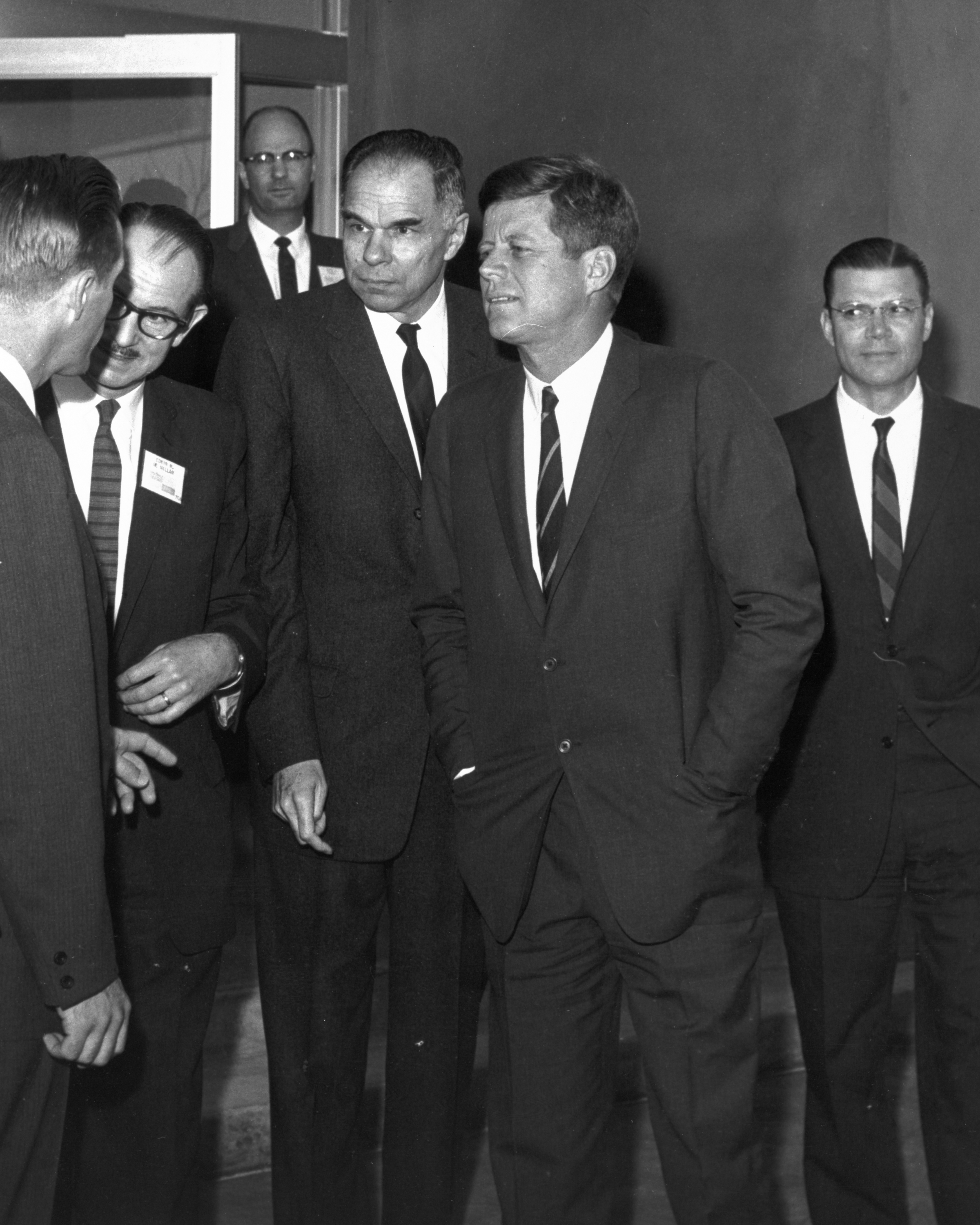 From left to right: President Kennedy, Chairman Seaborg, and Secretary McNamara on 23 March 1963. By this time Seaborg and McNamara had already been discussing the AEC's work on the ecological effects of nuclear warfare. (Courtesy: National Security Archives, original: National Archives)